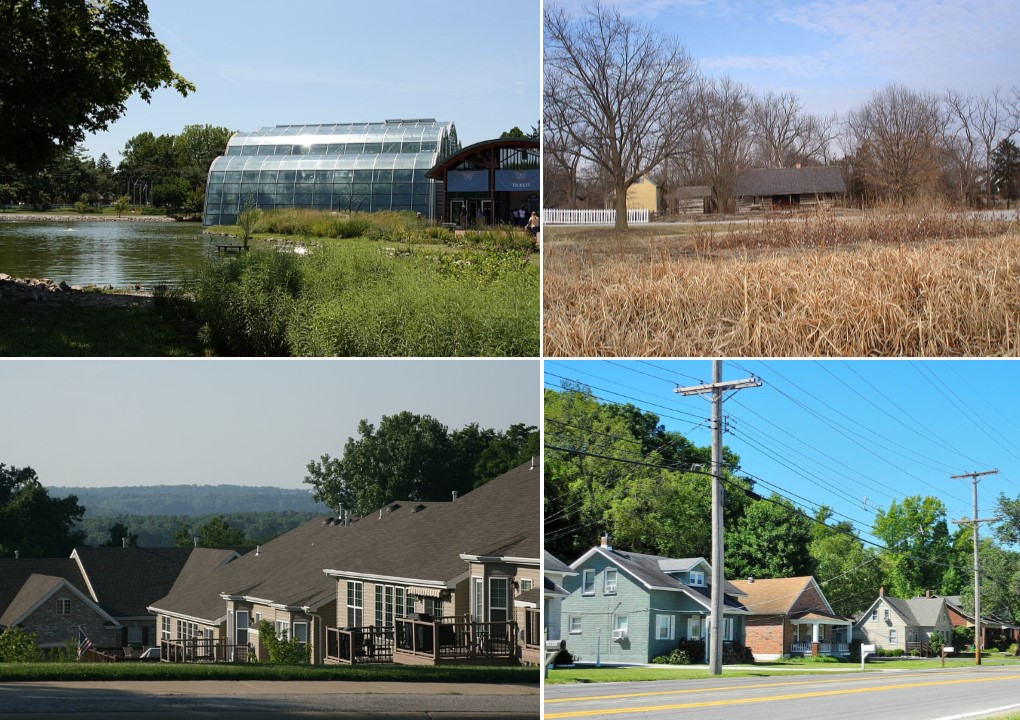 A montage of Chesterfield, Missouri